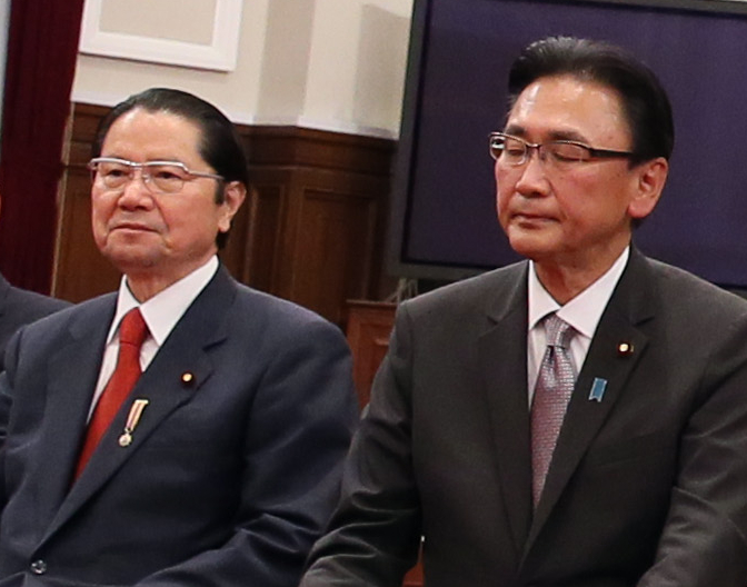 The delegation of Japan-ROC Diet Members' Consultative Council met Tsai Ing-wen, President, at the Presidential Office Building in Taipei City on May 20, 2016.